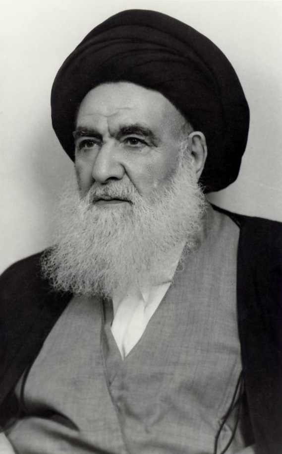 Abu al-Qasim al-Khoei, probably in the early 1970s